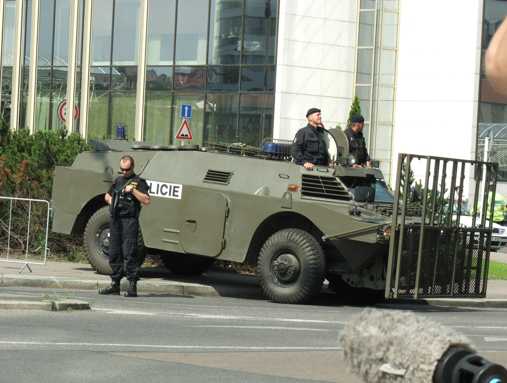 Czech police armoured car in Prague durige president's Bush visit. Conversion of BRDM-2.